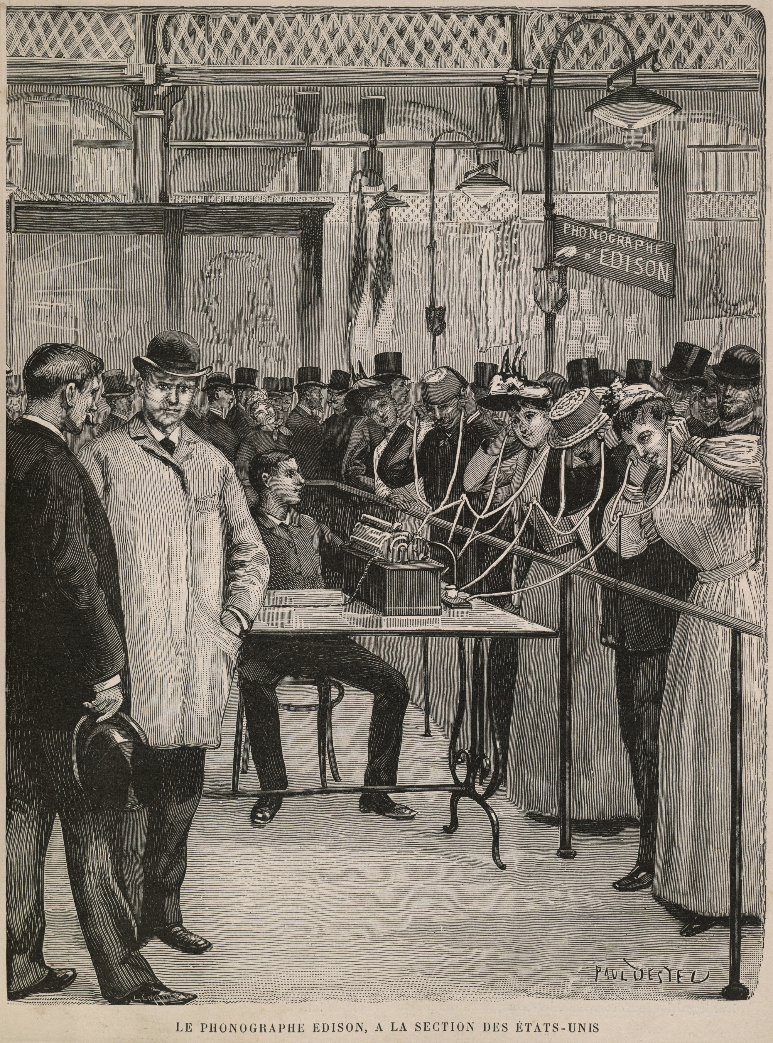 The phonograph was invented by Thomas Edison in 1877, and was a device to record and play back the sound of human voice. The first version of Edison's phonograph had been exhibited in Paris in the 1878 World fair. By 1889, the product had been refined and perfected. Instead of the metal cylinder (on which a small needle would engrave the sound patterns), Edison used a device covered with wax, which allowed for a better preservation of the soundtrack. The crowd here is shown listening to the records at the 1889 World Fair.